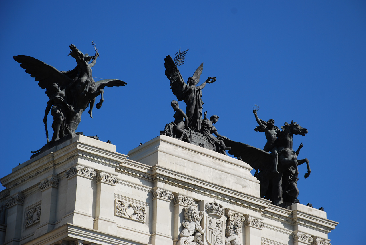 Partial view of the Spanish Ministry of Agriculture, Fisheries and Food headquarters in Madrid. At the top, the allegoric sculptural group La Gloria y los Pegasos ("The Glory and the Pegasus") by Agustí Querol Subirats (1860–1909).